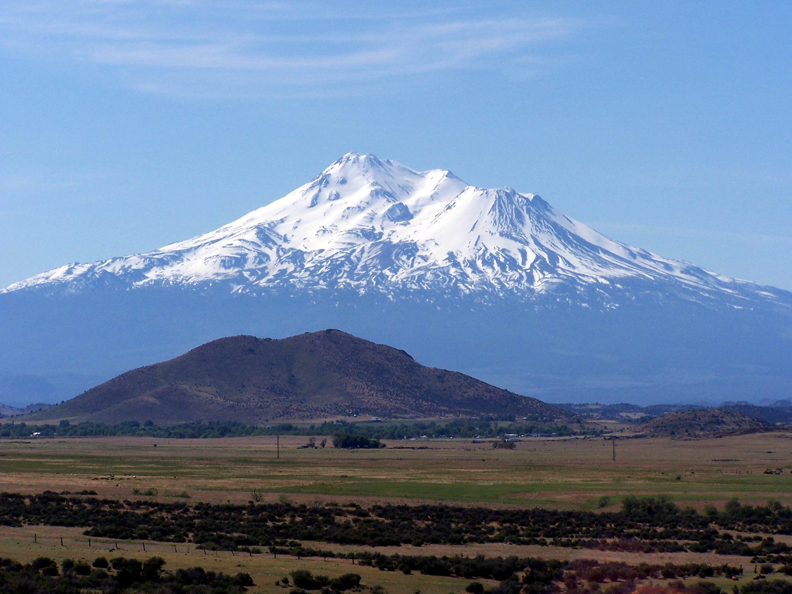 Looking south at Mount Shasta from a vista point on southbound I-5.